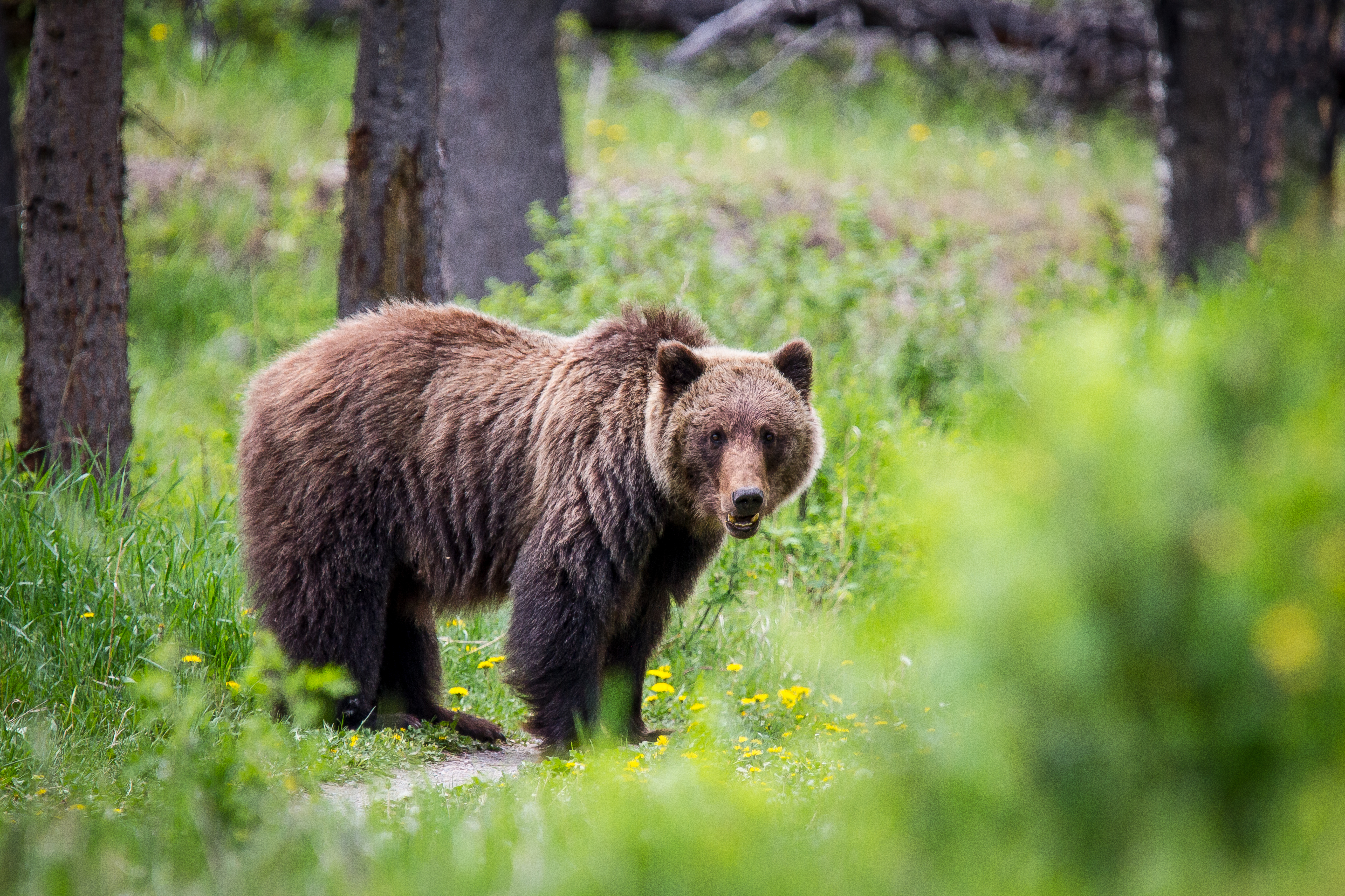 A Grizzly Bear roams in a wooded area near Jasper Townsite in Jasper National Park, Alberta, Canada. This photo was taken in a protected area in Canada, Wikidata item Jasper National Park (Q503429)